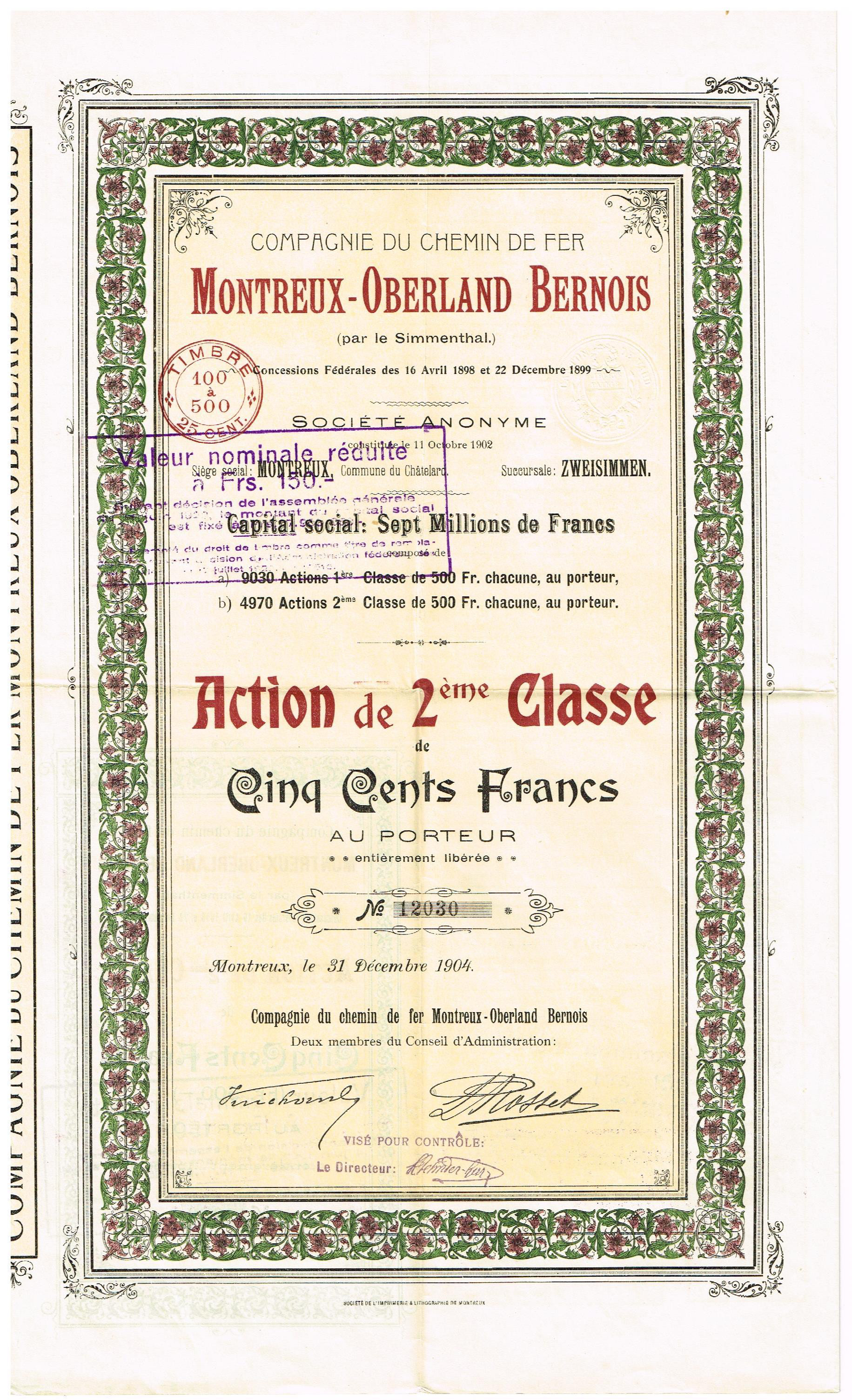 Share of the Comp. du CdF Montreux-Oberland Bernois, issued 31. December 1904